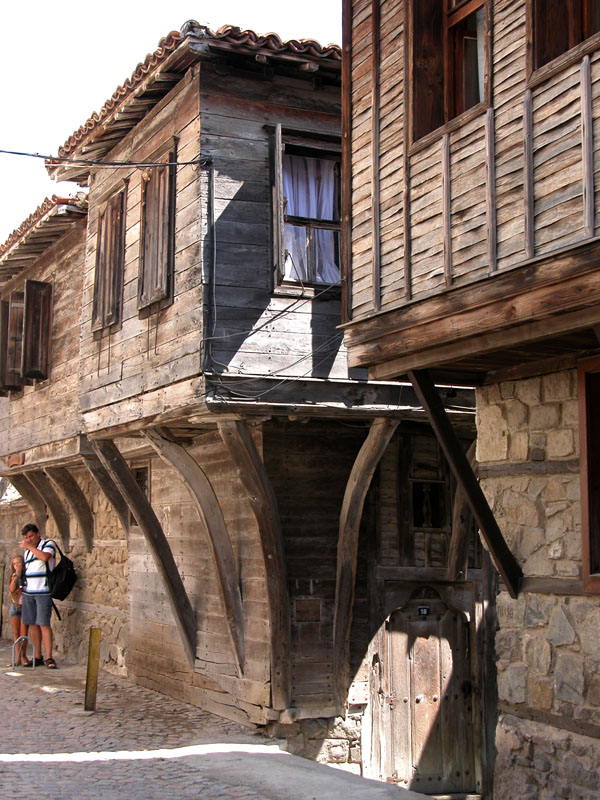 old houses at Sozopol, Bulgaria.